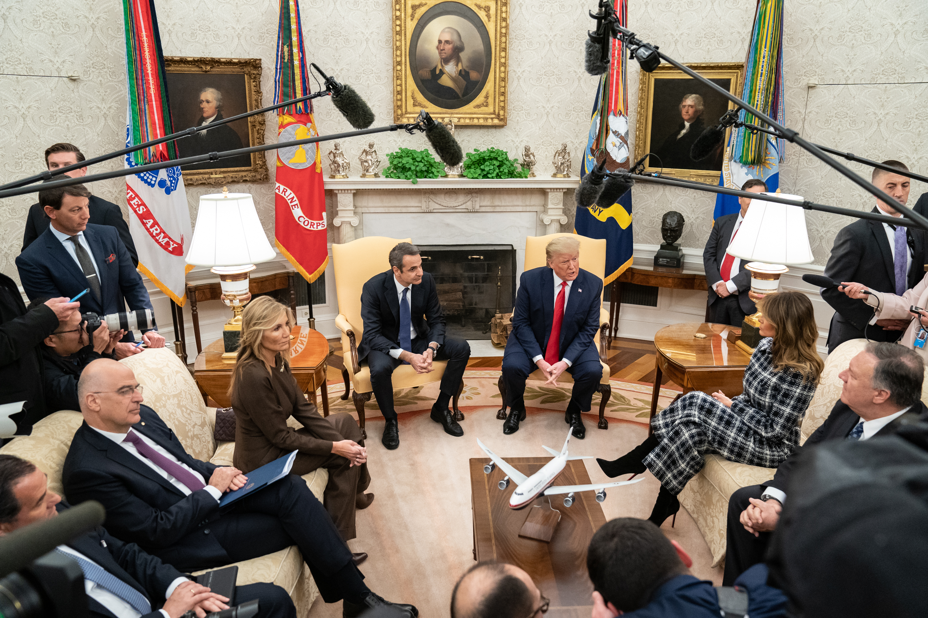 President Donald J. Trump, joined by First Lady Melania Trump, Secretary of State Mike Pompeo and National Security Advisor Robert O’Brien, speaks to reporters during a meeting with Greek Prime Minister Kyriakos Mitsotakis and his wife Mrs. Mareva Grabowski-Mitsotakis Tuesday, Jan. 7, 2020 in the Oval Office of the White House. (Official White House Photo by Andrea Hanks)